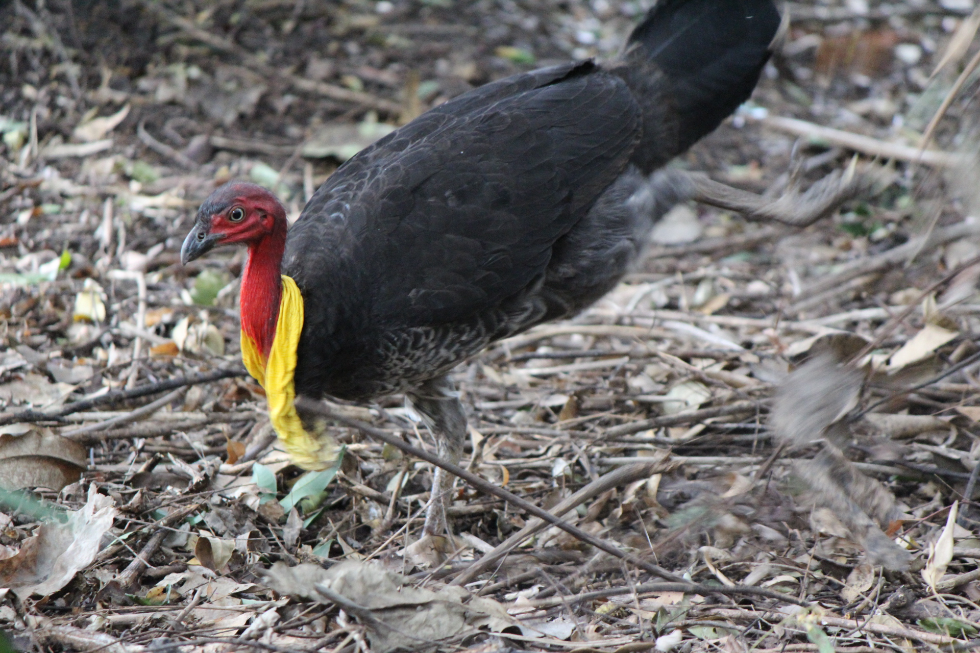 Brush turkey kicking ground litter in the native rainforest section of Mt Coot-Tha botanic gardens, Brisbane, Australia.